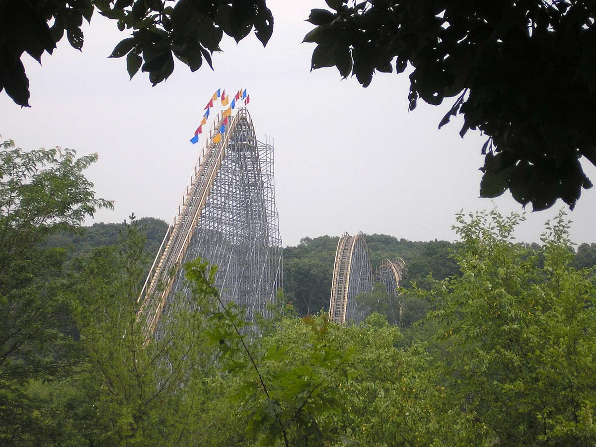 The Voyage wooden roller coaster at Holiday World amusement park in Santa Claus, Indiana. Photographed by Sjh123 during a June 2006 visit.